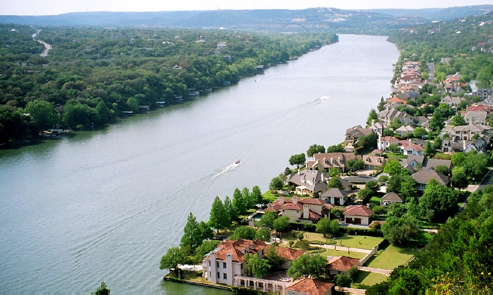 Lake Austin, a section of the Colorado River, seen from Mount Bonnell, Austin, Texas, United States. Lake Austin is impounded by Tom Miller Dam.